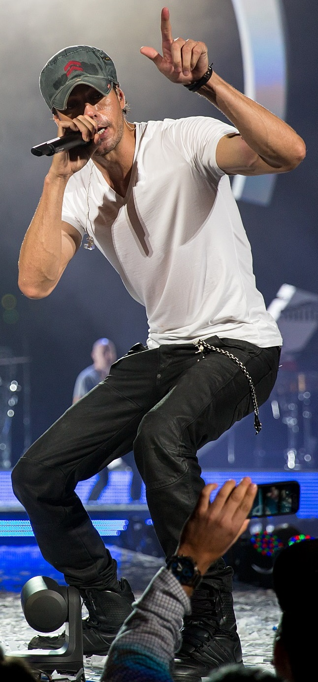 Cropped version of Enrique Iglesias and Pitbull 2015.jpg Enrique Iglesias performing with Pitbull at the Frank Erwin Center in Austin, Texas, 2015